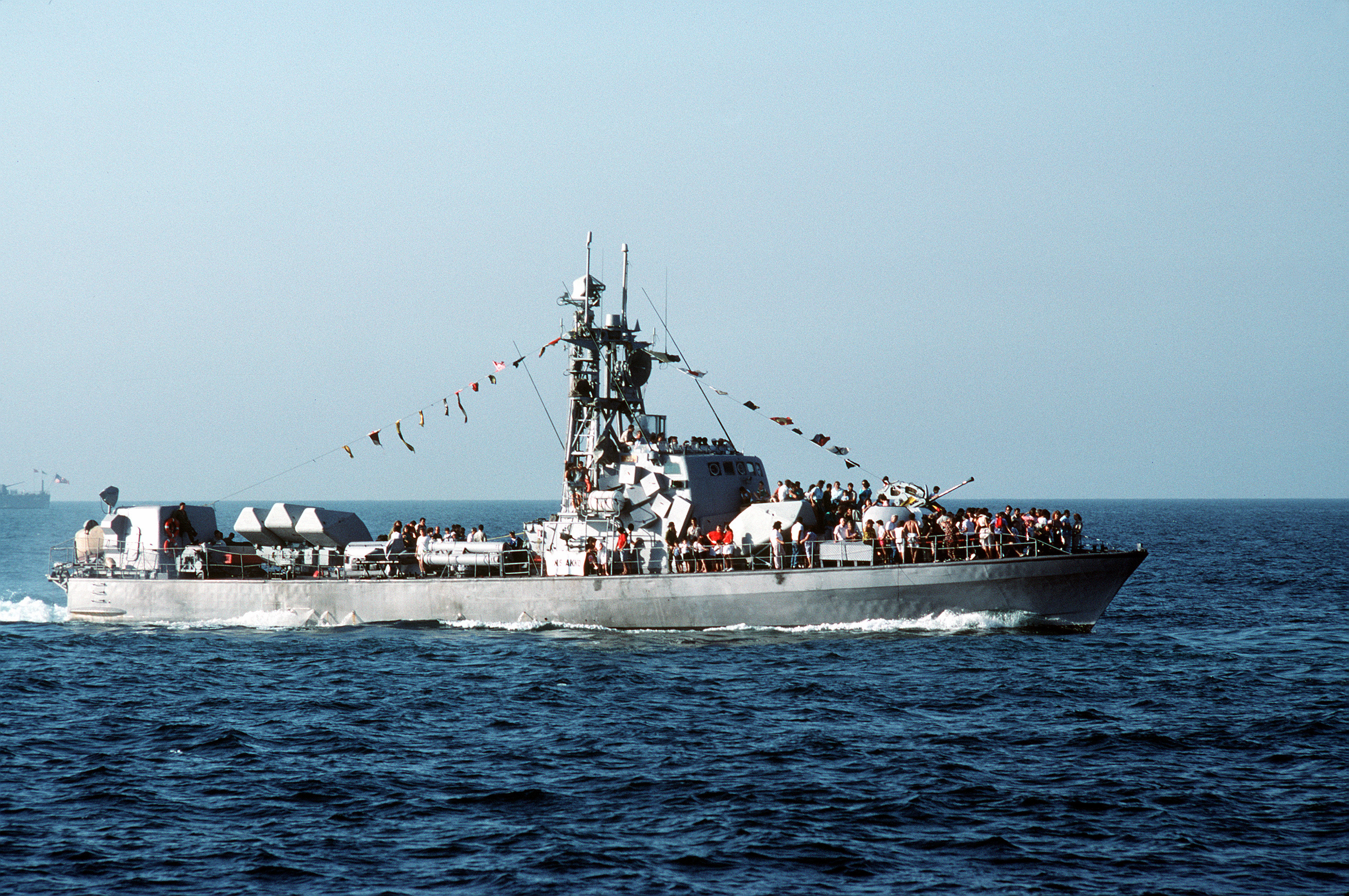 A starboard beam view of the ISRAELI Saar 2 class missile boat INS AKKO (323), with visitors aboard. Three Gabriel surface-to-surface missile launch boxes are visible near the stern.